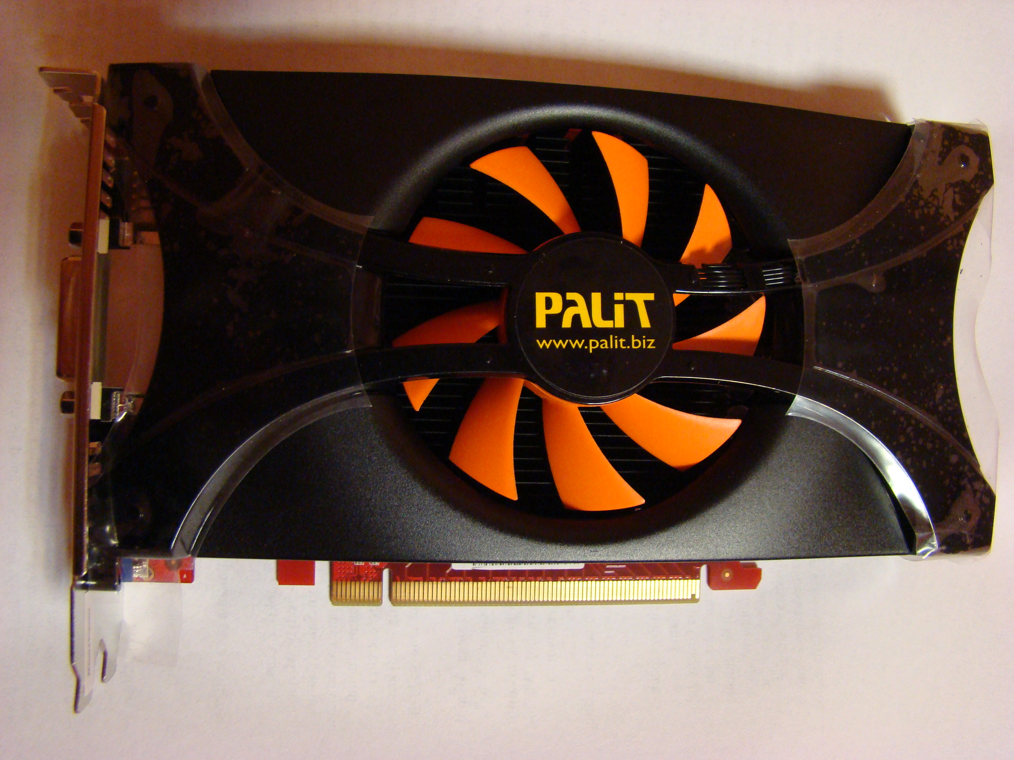 Palit GeForce GTX460 video card